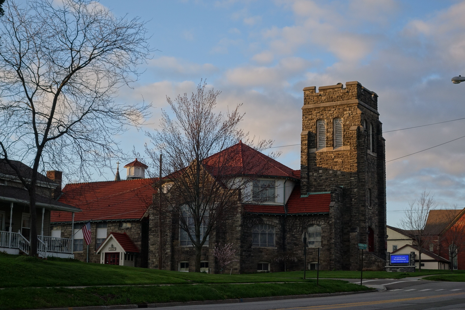 Brick Presbyterian Church, North Main St., Perry, NY, United States.